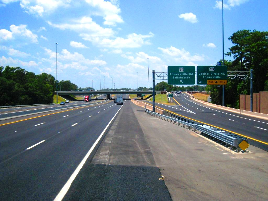 Interstate 10 moving west through Tallahassee Florida.